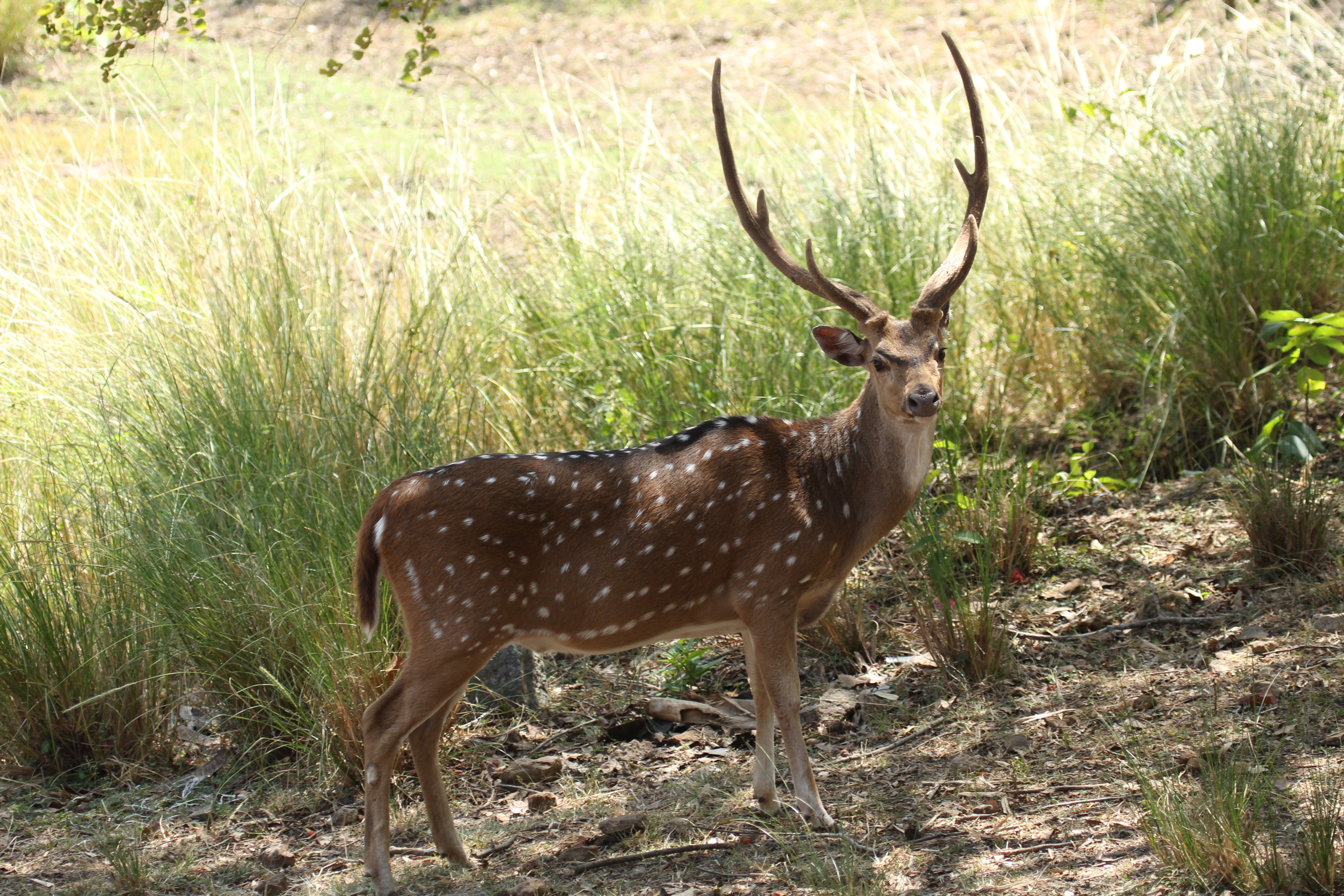 AKA Spotted Deer. Abundant in southern India.